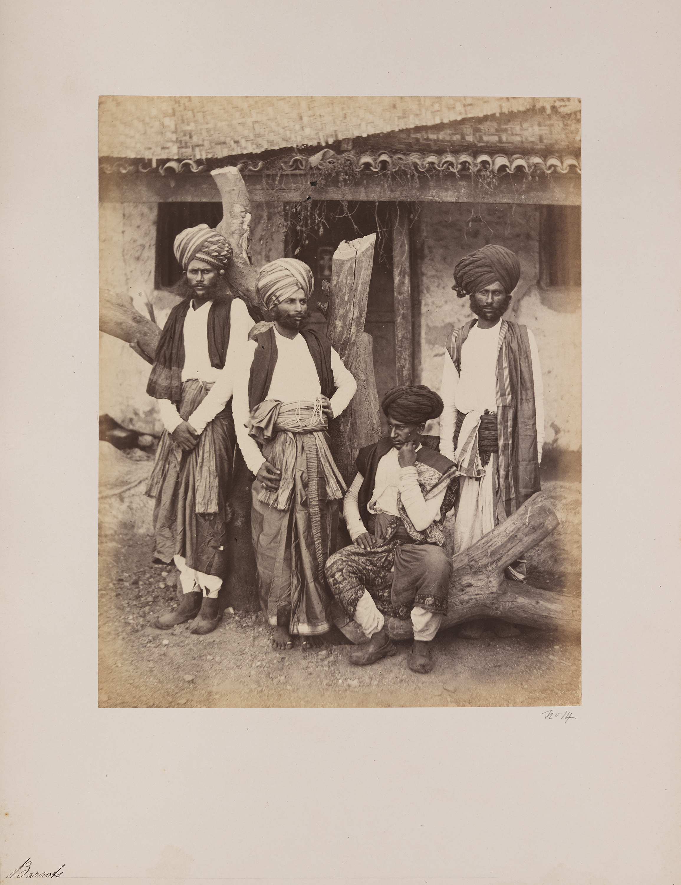 Title: Baroots Alternative Title: [Barots] Creator: Johnson, William Date: ca. 1855-1862 Part Of: Photographs of Western India Series: Photographs of Western India. Volume I. Costumes and Characters. Place: India Physical Description: 1 photographic print: albumen; 26 x 20 cm on 42 x 35 cm mount File: vault_ag2002_1407x_1_014_baroots_opt.jpg Rights: Please cite Southern Methodist University, Central University Libraries, DeGolyer Library when using this image file. A high-quality version of this file may be obtained for a fee by contacting . For more information, see: View Europe, India, and Asia: Photographs, Manuscripts, and Imprints